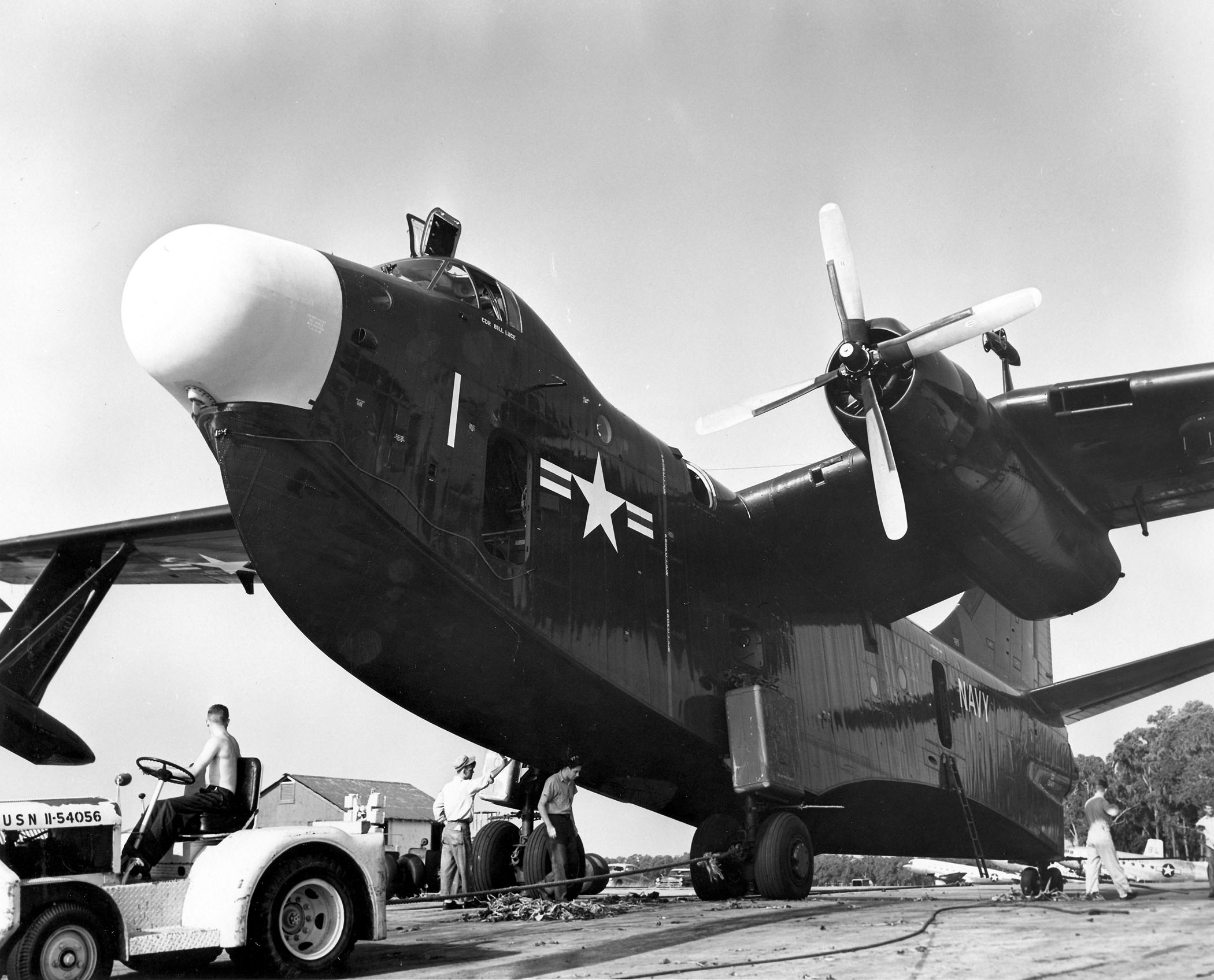 A Martin P5M-1 Marlin of patrol squadron VP-45 Pelicans is bein prepared for launch at the Naval Air Station Jacksonville (Florida, USA) in 1954.